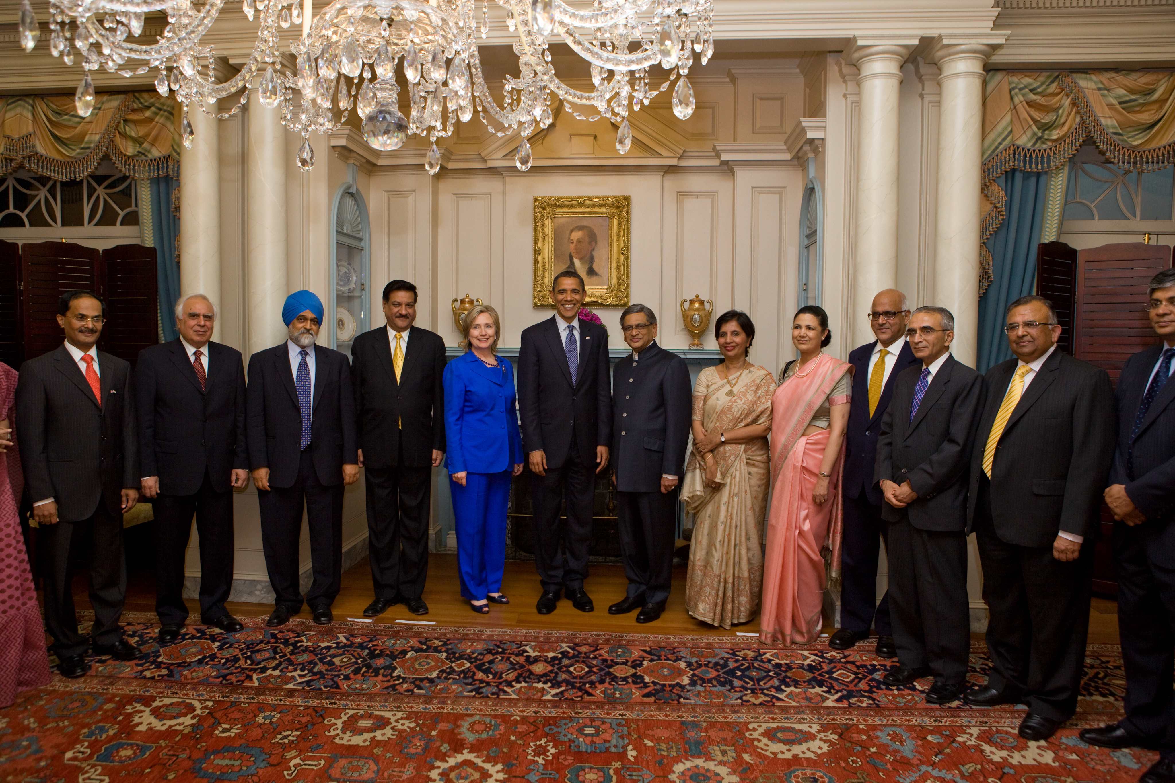 U.S. President Barack Obama, U.S. Secretary of State Hillary Rodham Clinton, and the Indian delegation pose for a photo at the U.S.-India Strategic Dialogue reception at the U.S. Department of State in Washington, D.C., on June 3, 2010. [White House photo/ Public Domain]